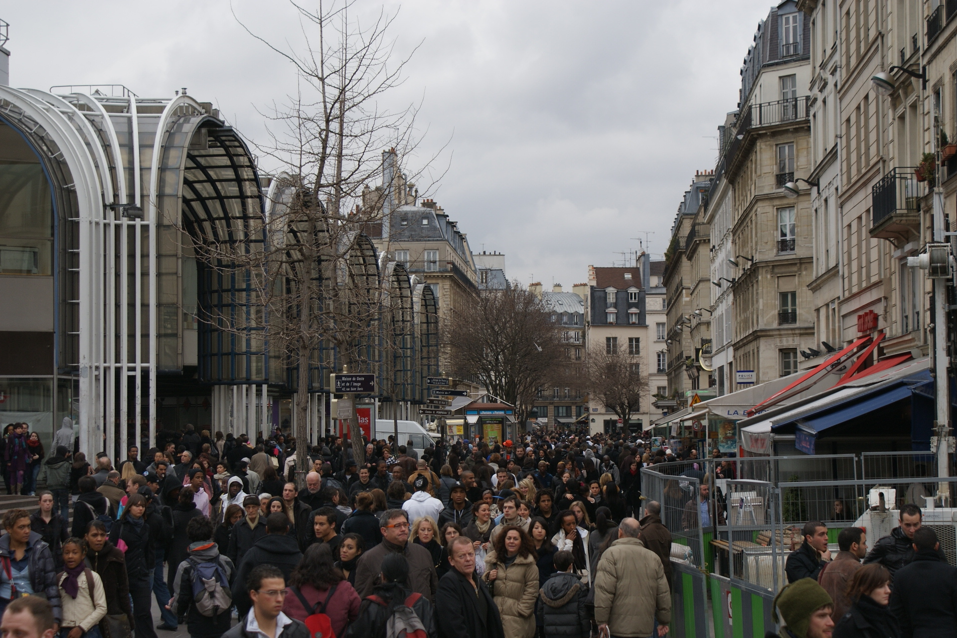 Rue Pierre Lescot next to the Forum des Halles